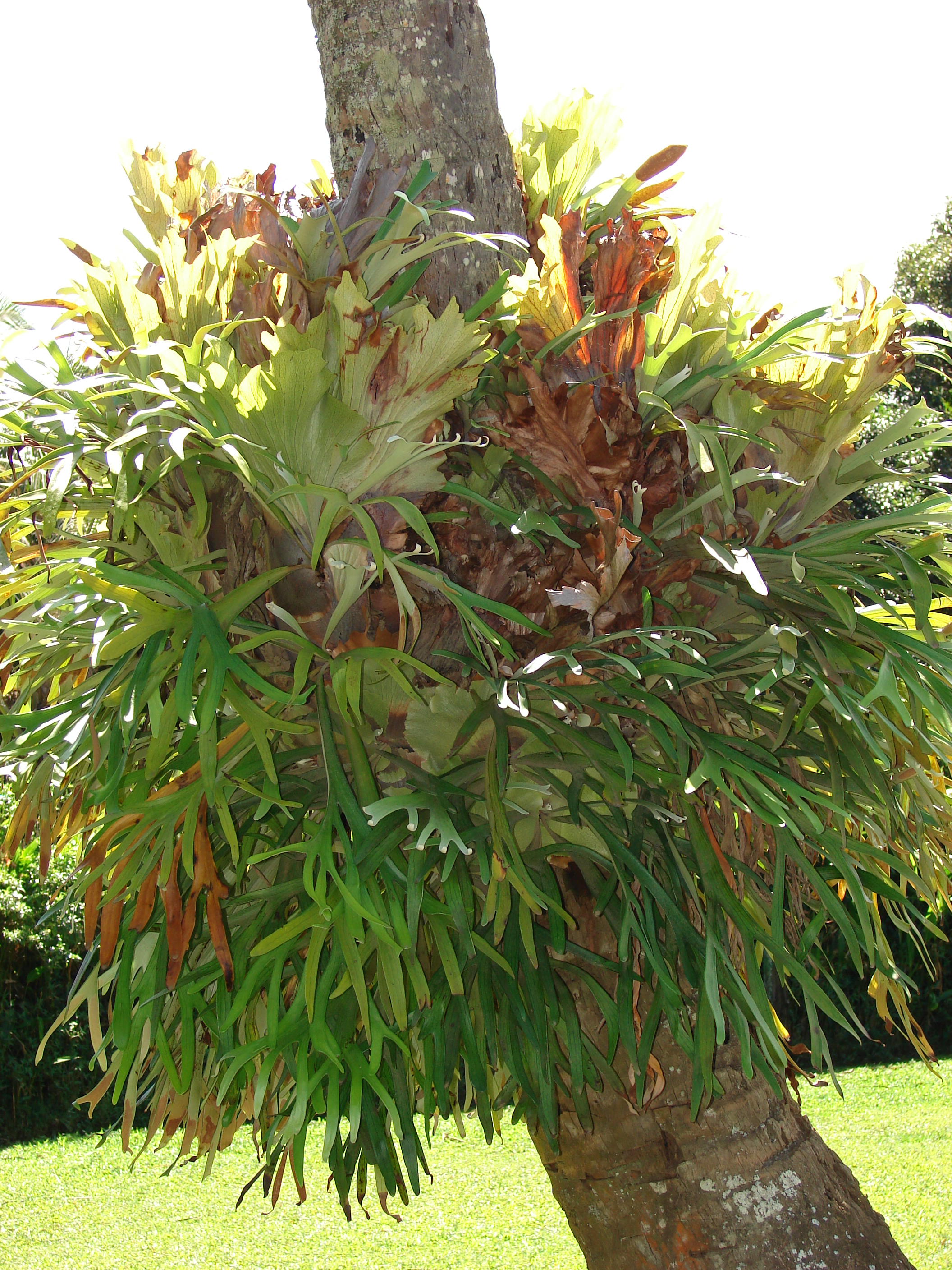 Platycerium sp. (habit). Location: Maui, Huelo